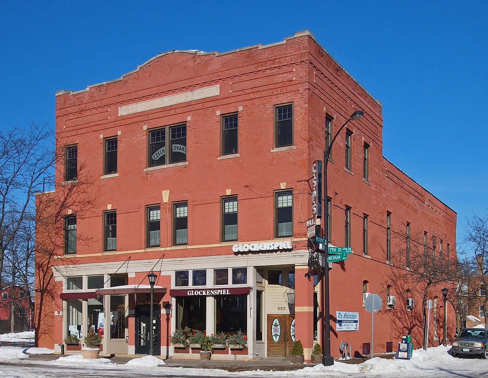 C.S.P.S. Hall with ground-floor German restaurant Glockenspiel, 381–383 Michigan St, St Paul, Minnesota, USA. Viewed from the southeast.